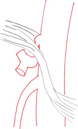 Diagram of median arcuate ligament syndrome anatomy.